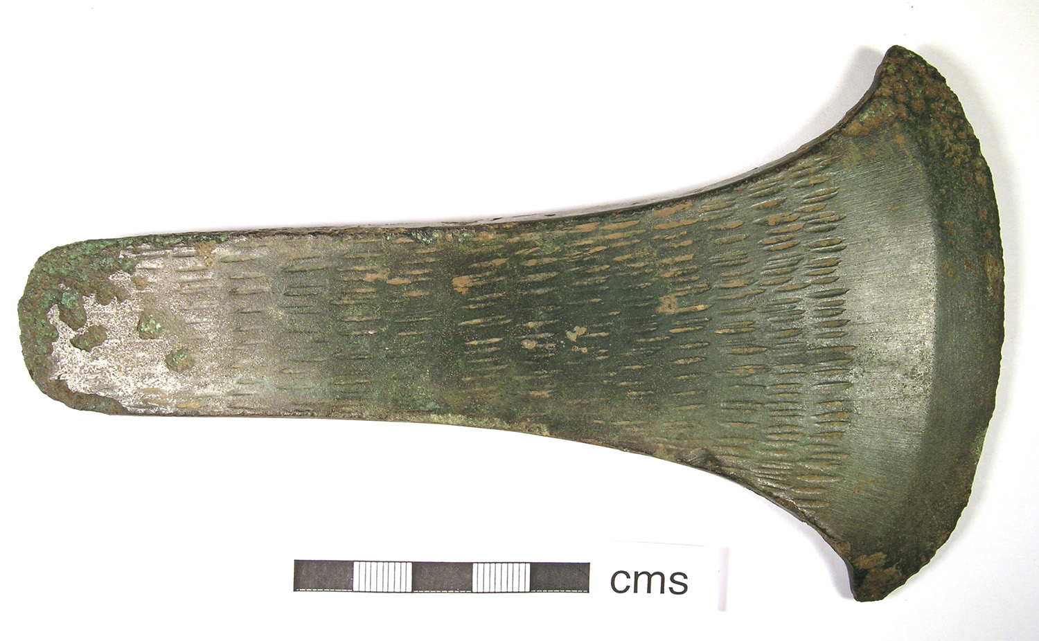 A complete Early Bronze Age cast cu-alloy flat axe. The body of the axe flares out into a crescent-shaped blade and the butt also curves slightly. The axe has a smooth surface with a large pitted area on one face and a decoration of ca. 15 horizontal lines of short grooves on each side. Its casting seams were flattened and polished it is generally in good condition, with a rich greenish-brown patina. The body thickens in the middle so that the shaft sides have an elongated, rounded diamond shape. It does not have stop-ridge or side flanges which makes it part of the Migdale-Marnoch metalwork tradition of the Early Bronze Age.